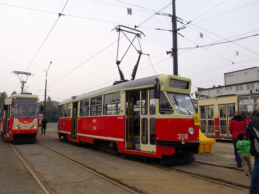 Konstal 13N 308, tram depot, Będzin, 2016